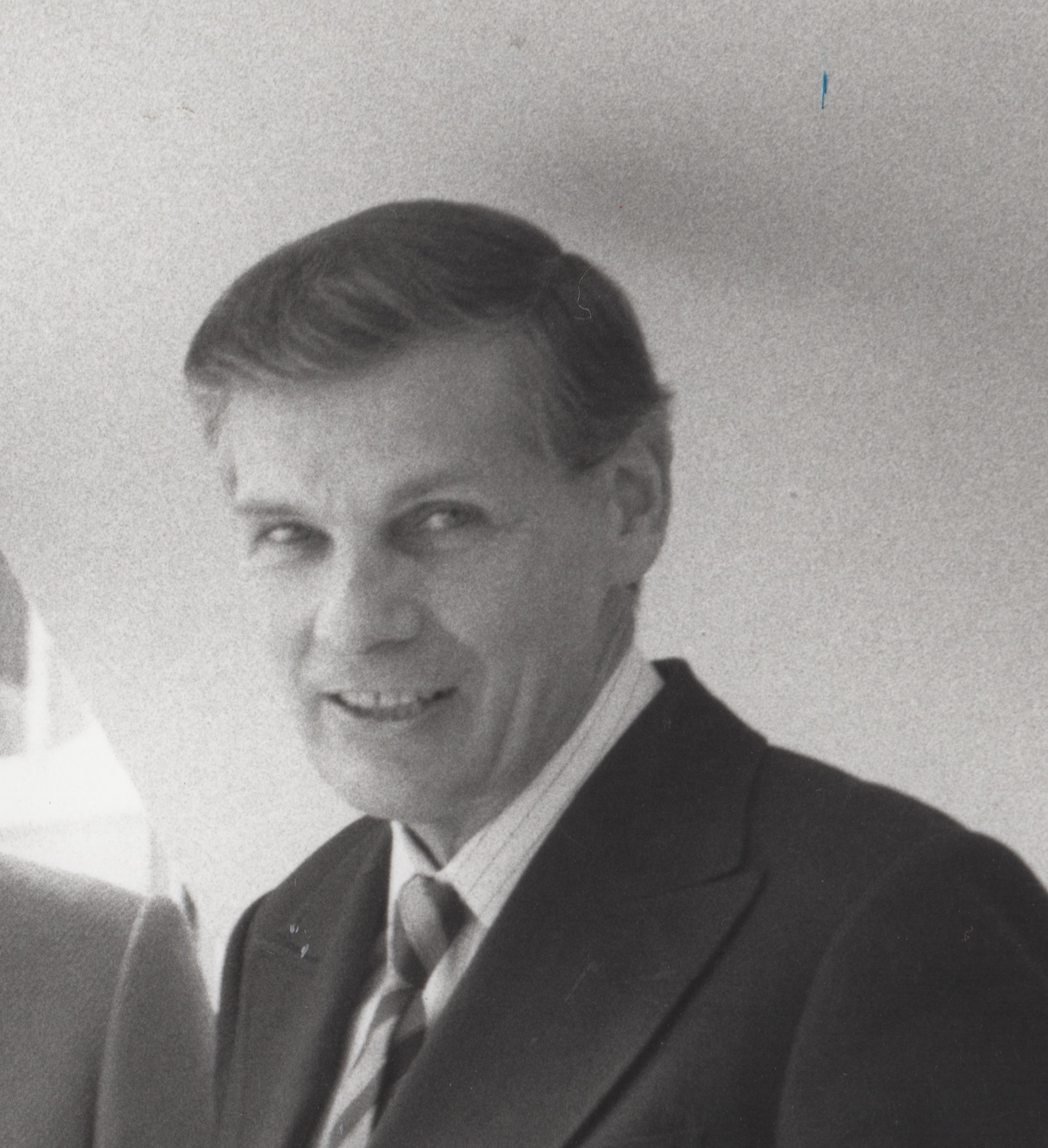 A portrait image of Douglas Forsythe Kelley.